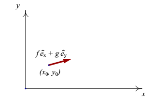 As funções f {\displaystyle f} e g {\displaystyle g} , calculadas num dado ponto ( x 0 , y 0 ) {\displaystyle (x_{0},y_{0})} , definem a velocidade de fase nesse ponto.